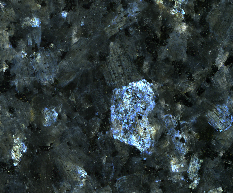 Larvikite (“Blue Pearl Granite”) from the Larvik Batholith (Early Permian) near Larvik, southern Norway. Larvikite is one of my favorite rocks. It’s a variety of monzonite, though it’s sometimes misperceived as a variety of syenite. Larvikite is dominated by large crystals of spectacularly bluish-iridescent (schillerescent) perthitic feldspar (closely intergrown potassium feldspar and plagioclase feldspar). The play of colors is the result of light being dispersed along the plagioclase and K-feldspar crystal boundaries. The smaller black crystals are pyroxene. Varieties of larvikite are popular decorative/ornamental stones known commercially as “Blue Pearl Granite”, “Emerald Pearl Granite”, and other names. They are quarried from the Larvik Batholith (a.k.a. Larvik Pluton, Larvik Complex, Larvik Plutonic Complex), a suite of 10 igneous plutons emplaced in the Oslo Rift (Oslo Graben) surrounded by ~1.1 billion year old Sveconorwegian gneisses. The Larvik Batholith dates to about 292-298 million years old (early Early Permian). Many quarries exploit larvikite in the vicinity of the town of Larvik in southwestern Vestfold County, southern Norway.